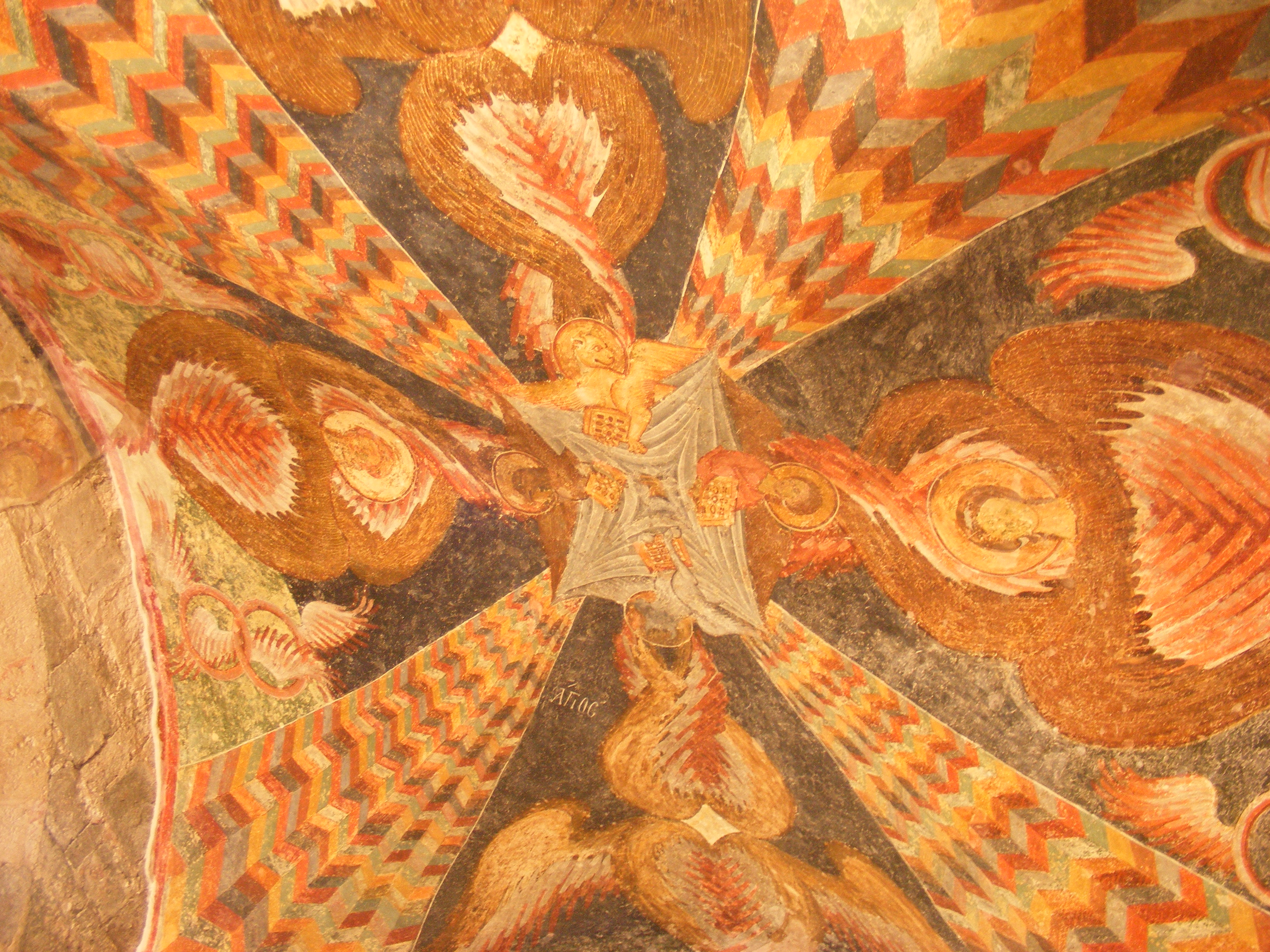 frescoes of Hagia Sophia, Trabzon